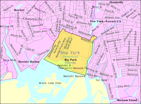 U.S. Census 2000 reference map for Bay Park, New York